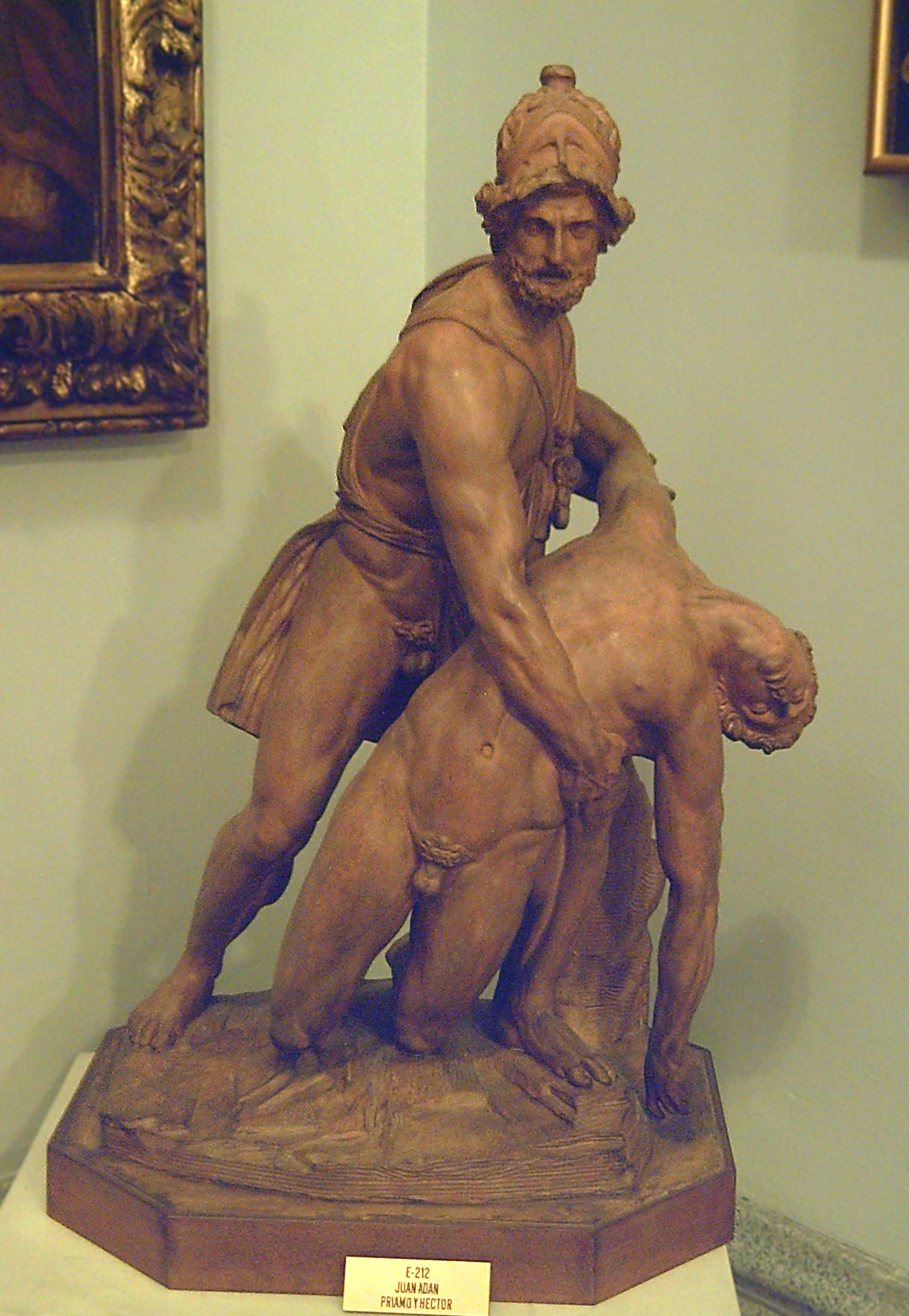 Reinterpretation of the so-called Pasquino Group (also known as Menelaus supporting the body of Patroclus), an ancient Roman sculpture from the late first century CE at the Loggia della Signoria in Florence (Italy), which in turn is a copy of a Hellenistic Pergamene original from the mid-third century BC.